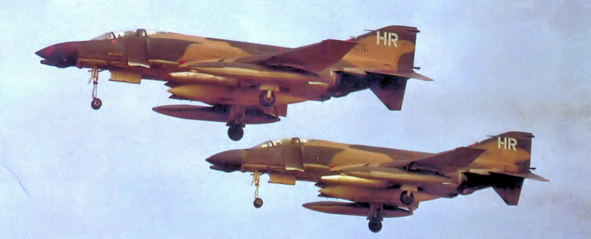 10th Tactical Fighter Squadron - McDonnell F-4D-29-MC Phantom 65-0780 and 65-0781 about 1970. Note non-standard tail markings